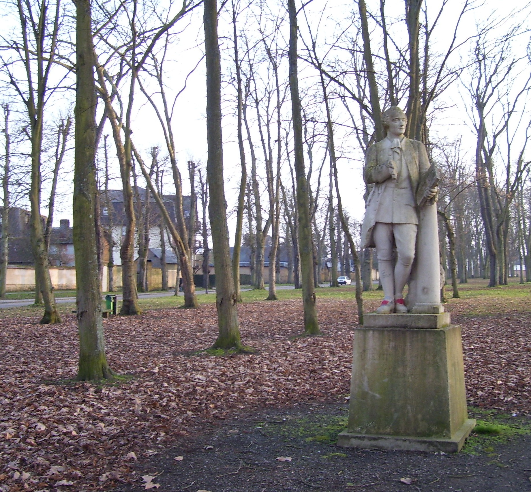 Public park and statue of Maurice Quentin de La Tour in Conches-en-Ouche in the département Eure in France in February.